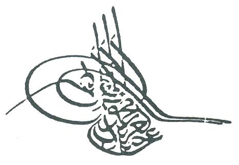 Tughra (i.e., seal or signature) of Abdülaziz, Sultan of the Ottoman Empire (1861-1876). An explanation of the different elements composing the tughra can be found here.